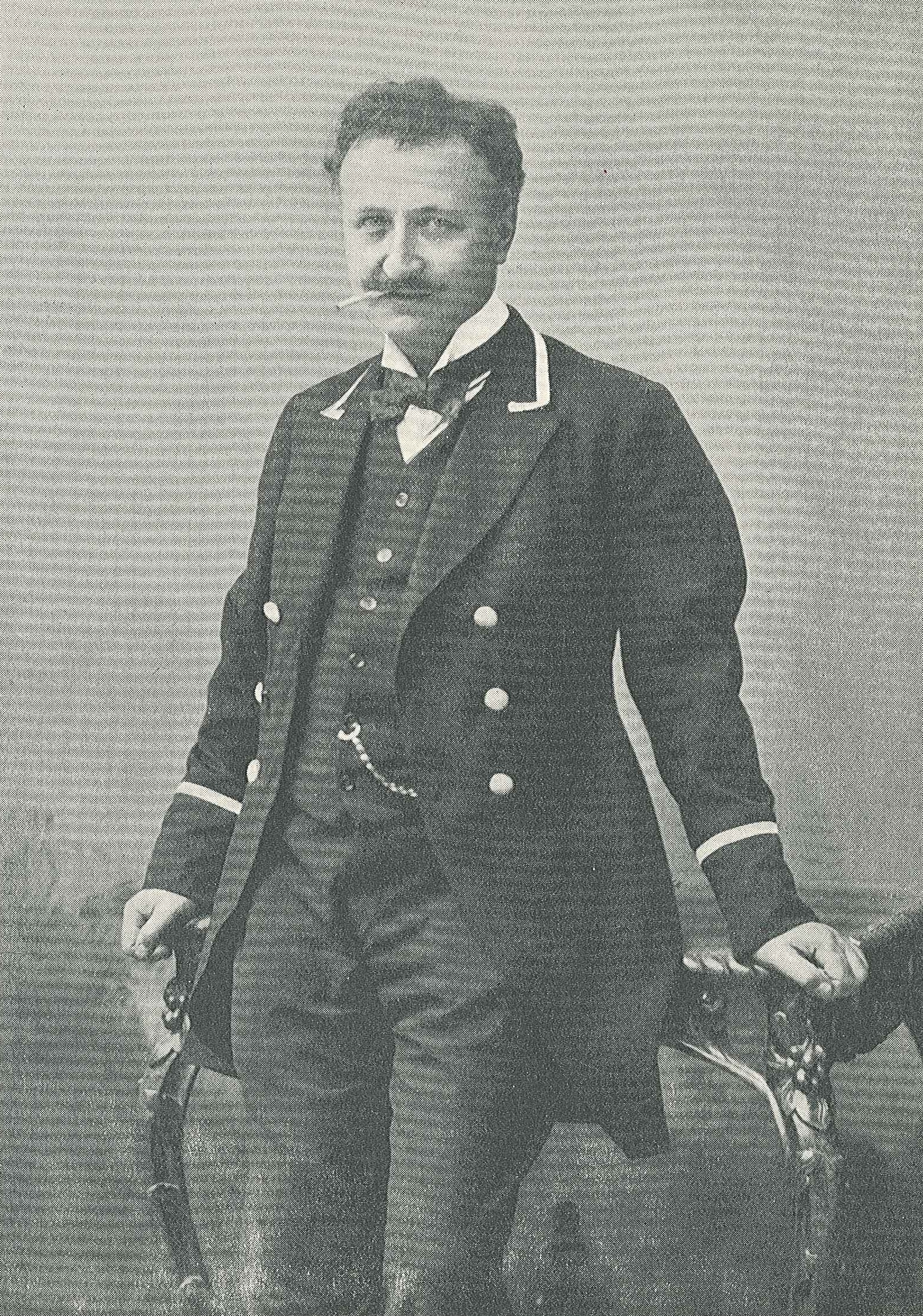 Swedish actor August Palme (1856-1924) as "Jean" in August Strindberg's play Miss Julie.